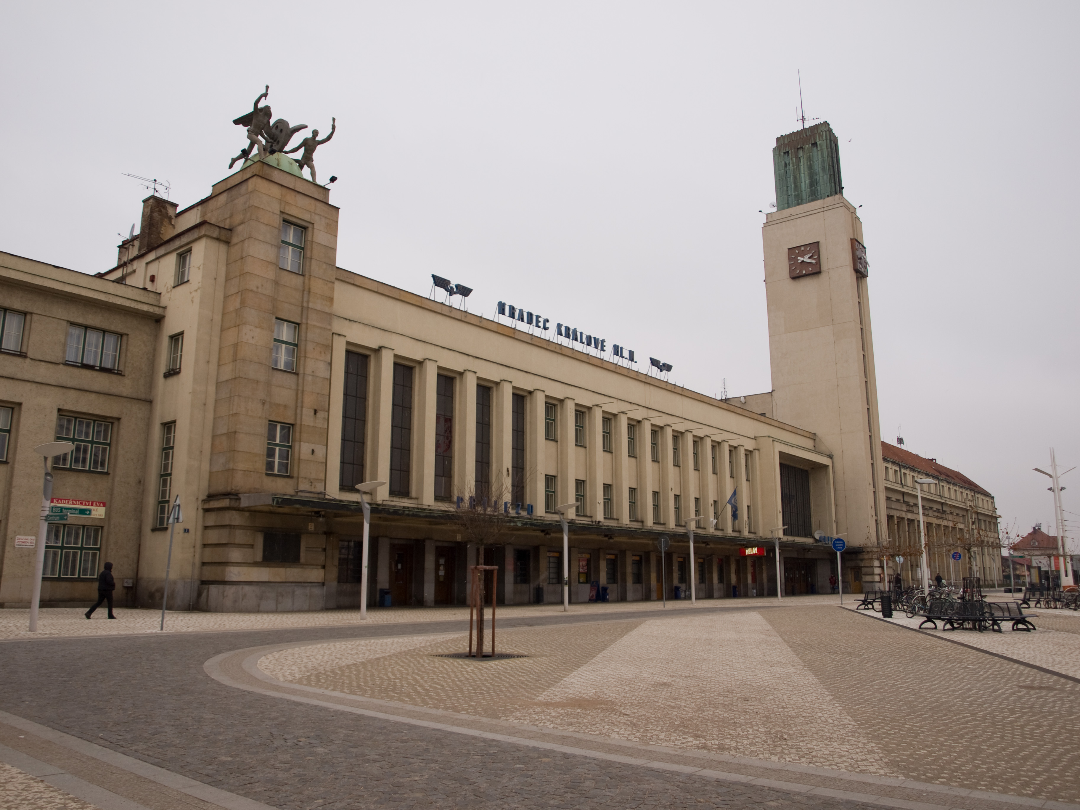 Main train station, Hradec Králové